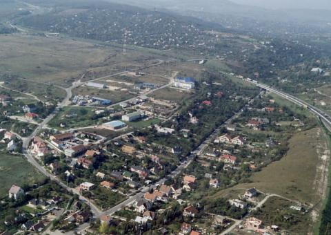 Diósd, Hungary, aerialphotography